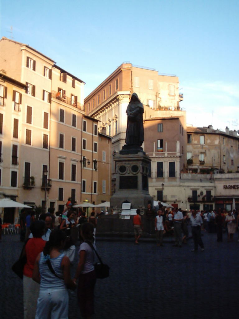 Statue of Giordano Bruno in Campo dei Fiori, Rome Transferred from it.wikipedia to Commons. The original description page was here. All following user names refer to it.wikipedia.